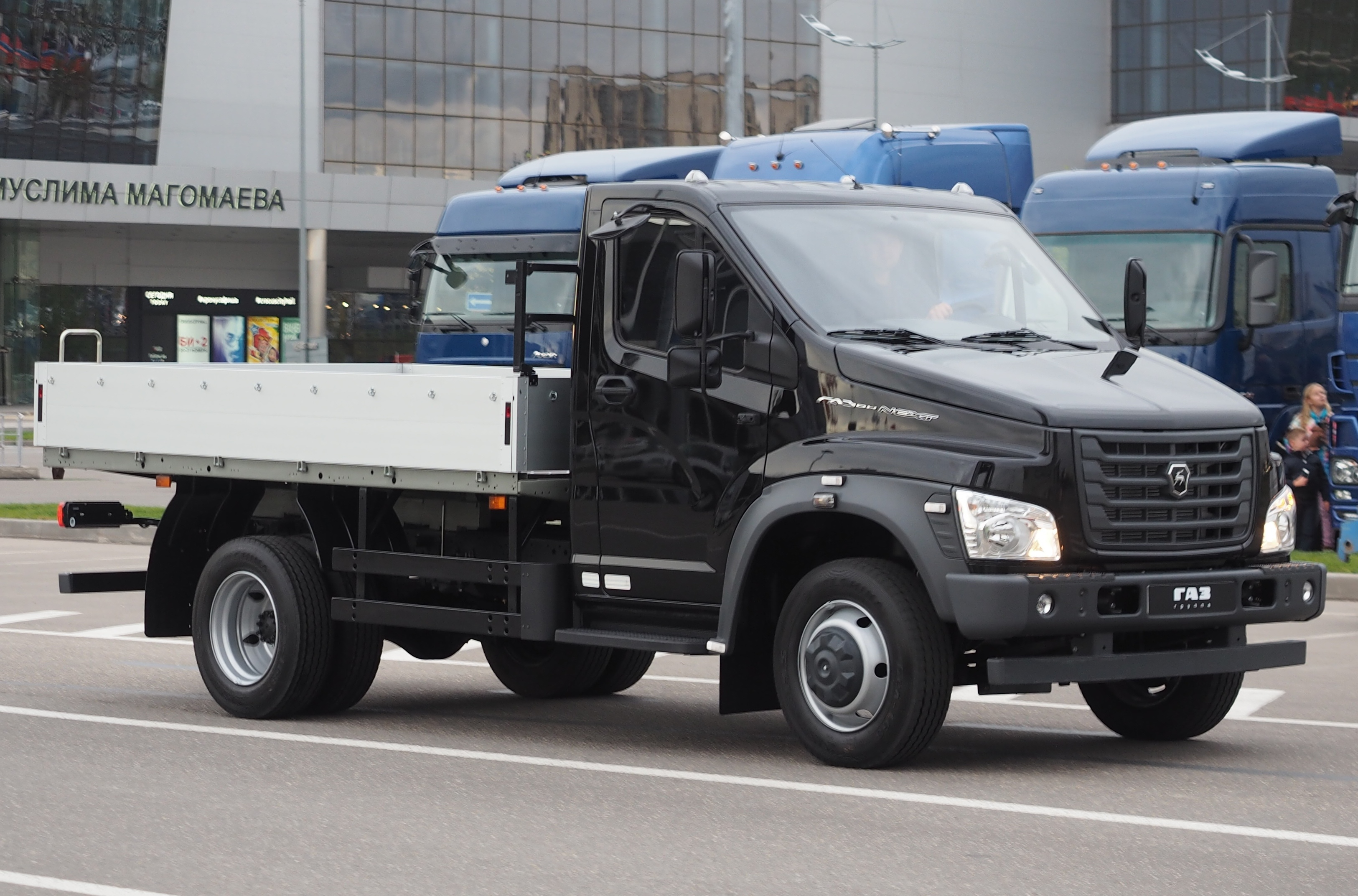 GAZon-Next flatbed truck Comtrans-2015